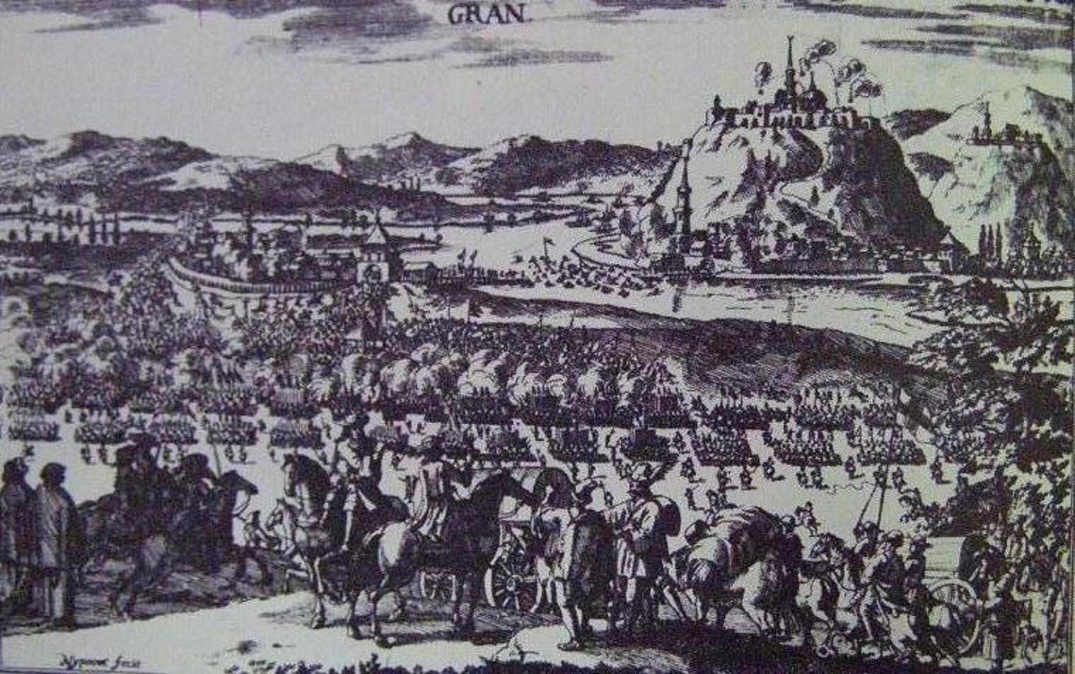 The Battle of Párkány (Parkanam), 1683